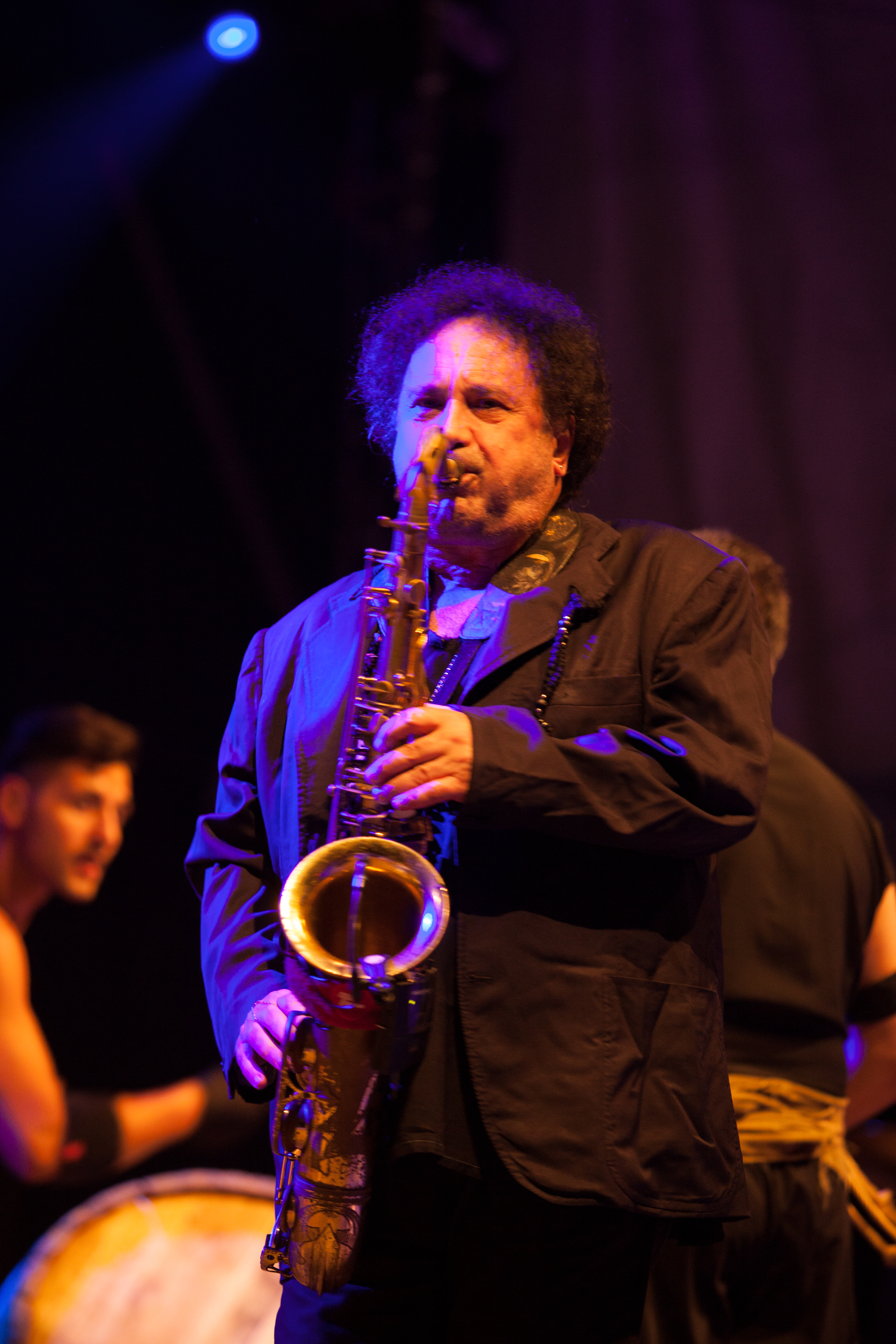 Enzo Avitabile at the TFF Rudolstadt 2013